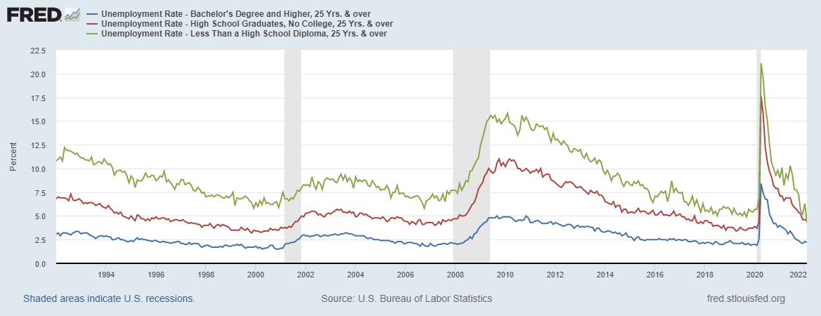 Graphic shows the trend in U.S. unemployment by education level